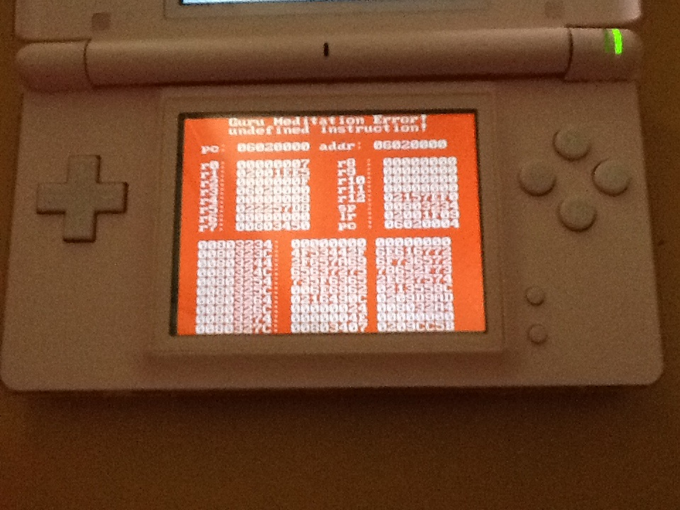 A Guru Meditation Error screen in DSOrganize on a pink DS Lite.